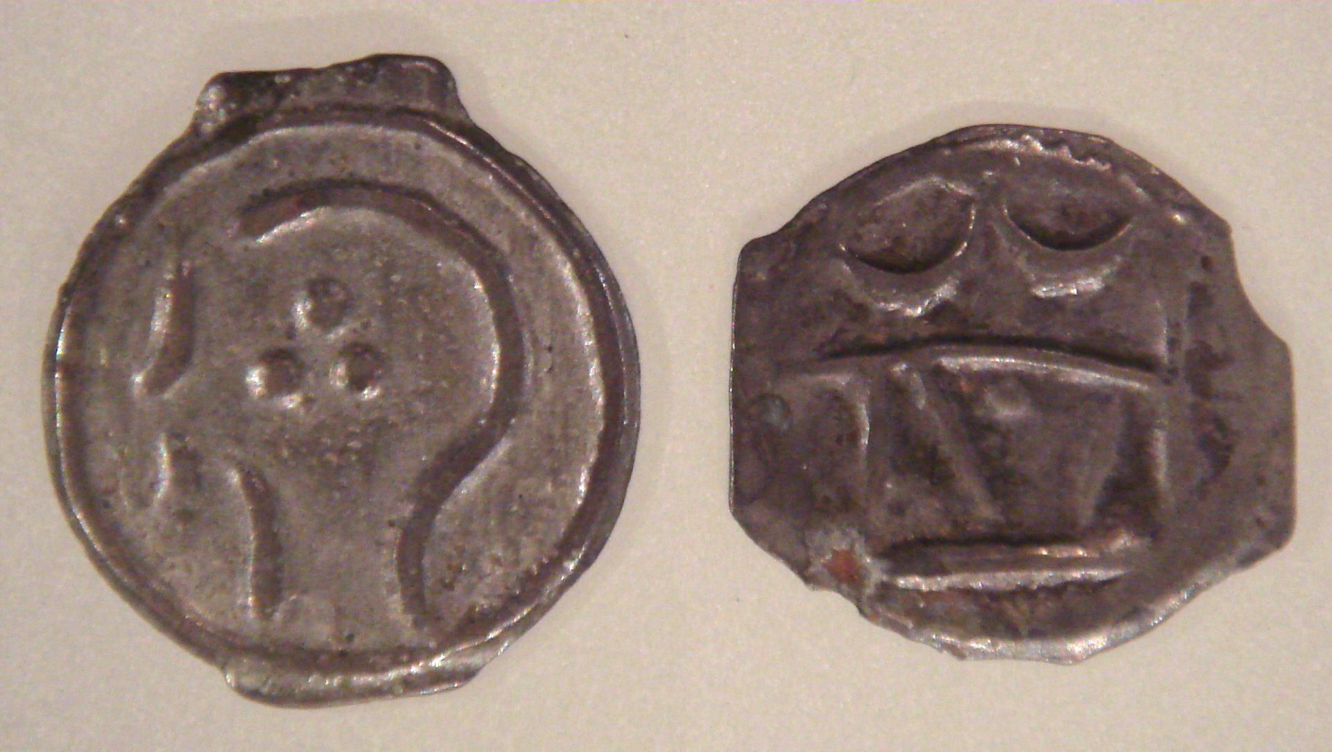 Sunbury_hoard_Northern_probably_Kent_manfacture_Design_derived_from_Marseilles_Greek_coins_with_stylised_head_of_Apollo_and_butting_bull_between_100BCE_and_50BCE.jpg